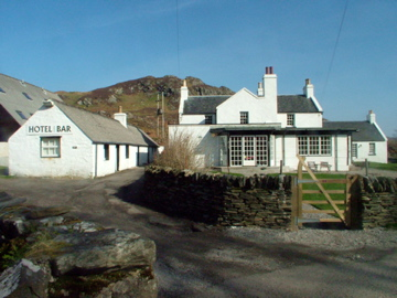 The island's only hotel, bar. Restaurant open daily to all visitors. A warm welcome awaits.